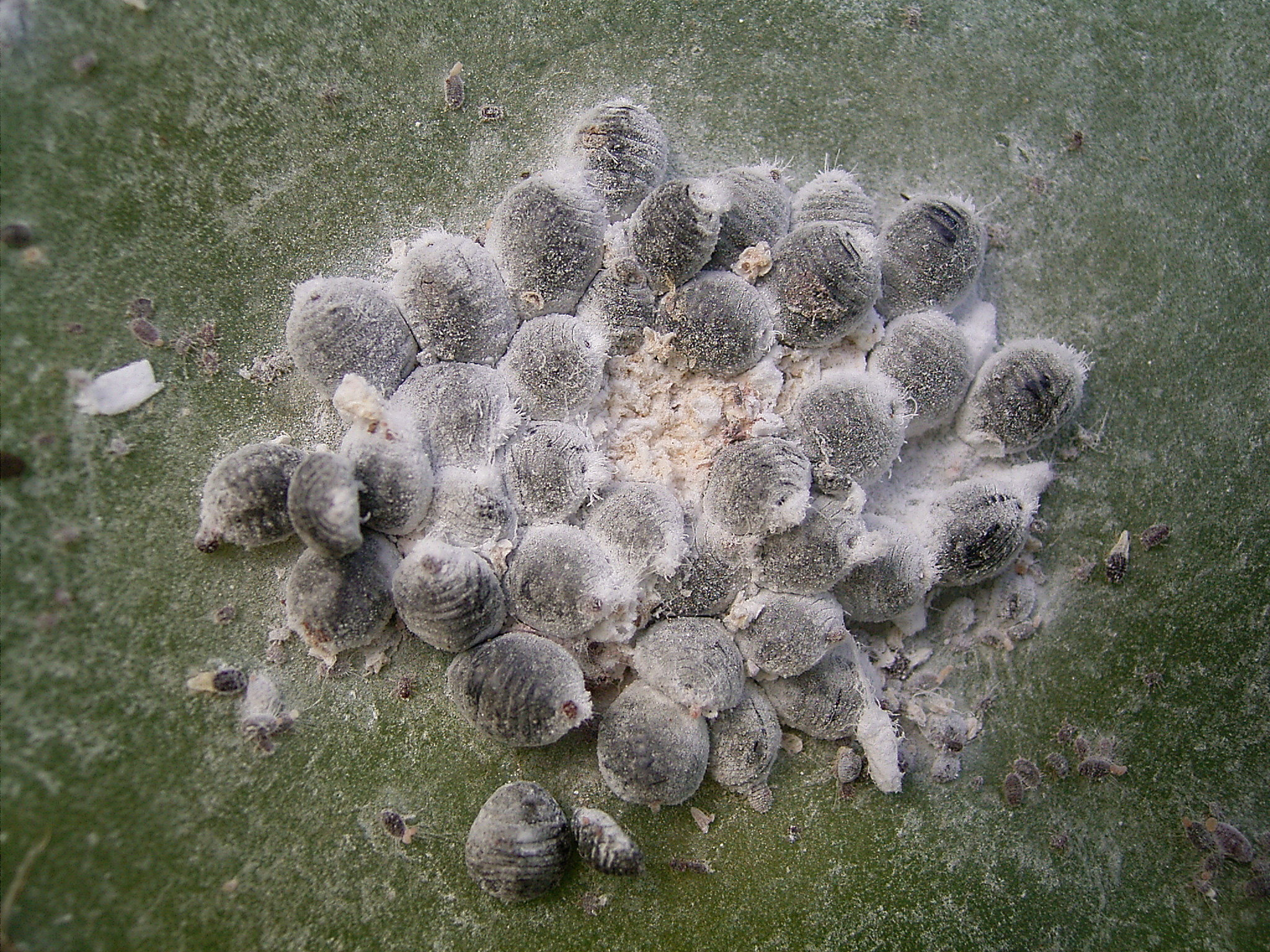 Dactylopius coccus growing in Barlovento, La Palma, Canary Islands